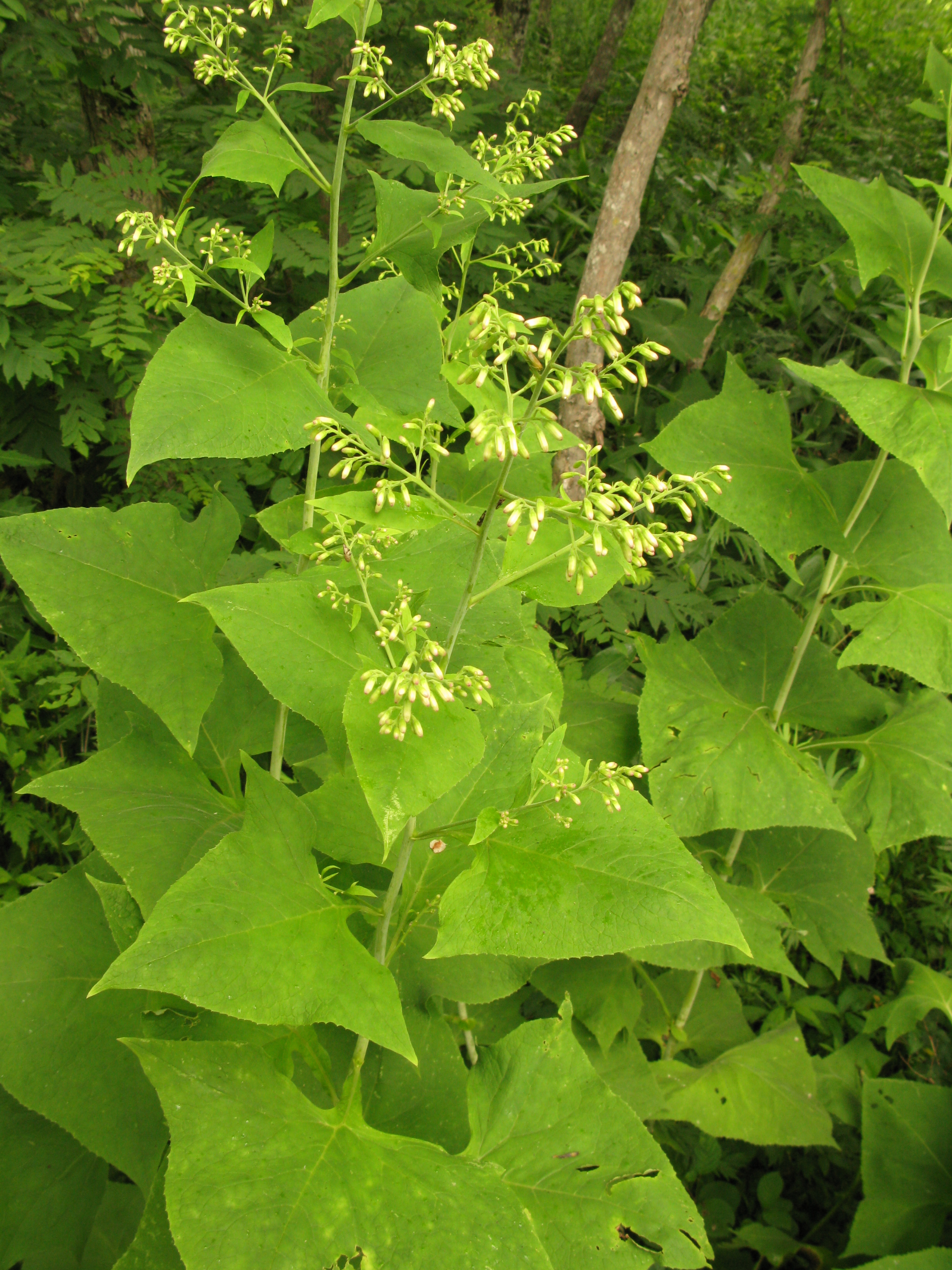 Parasenecio tschonoskii, Ozegahara, Gunma pref.,Japan